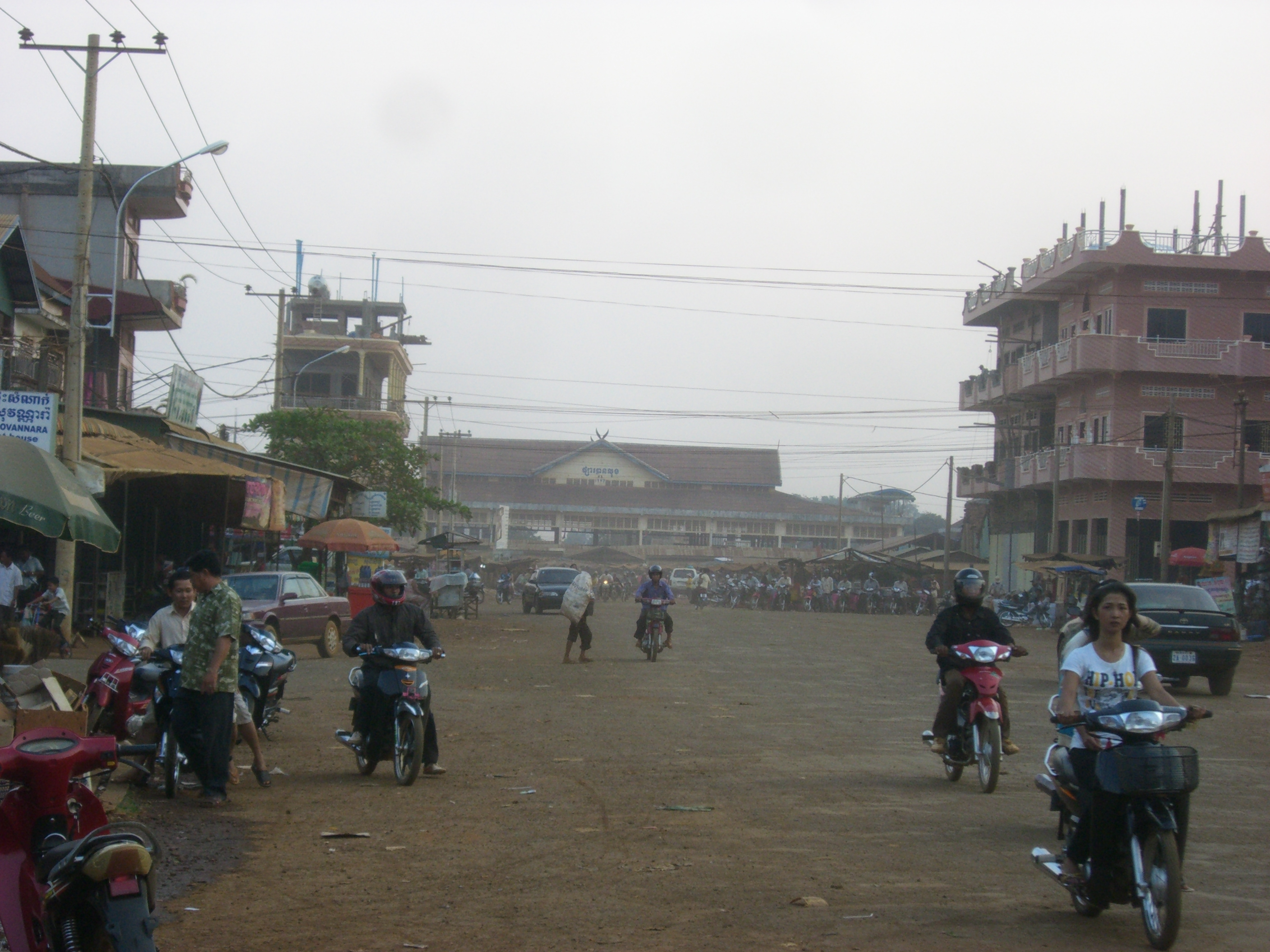 This is the main street through Ban Lung. Dust gets kicked up constantly and covers everything in a sheet of bright red.